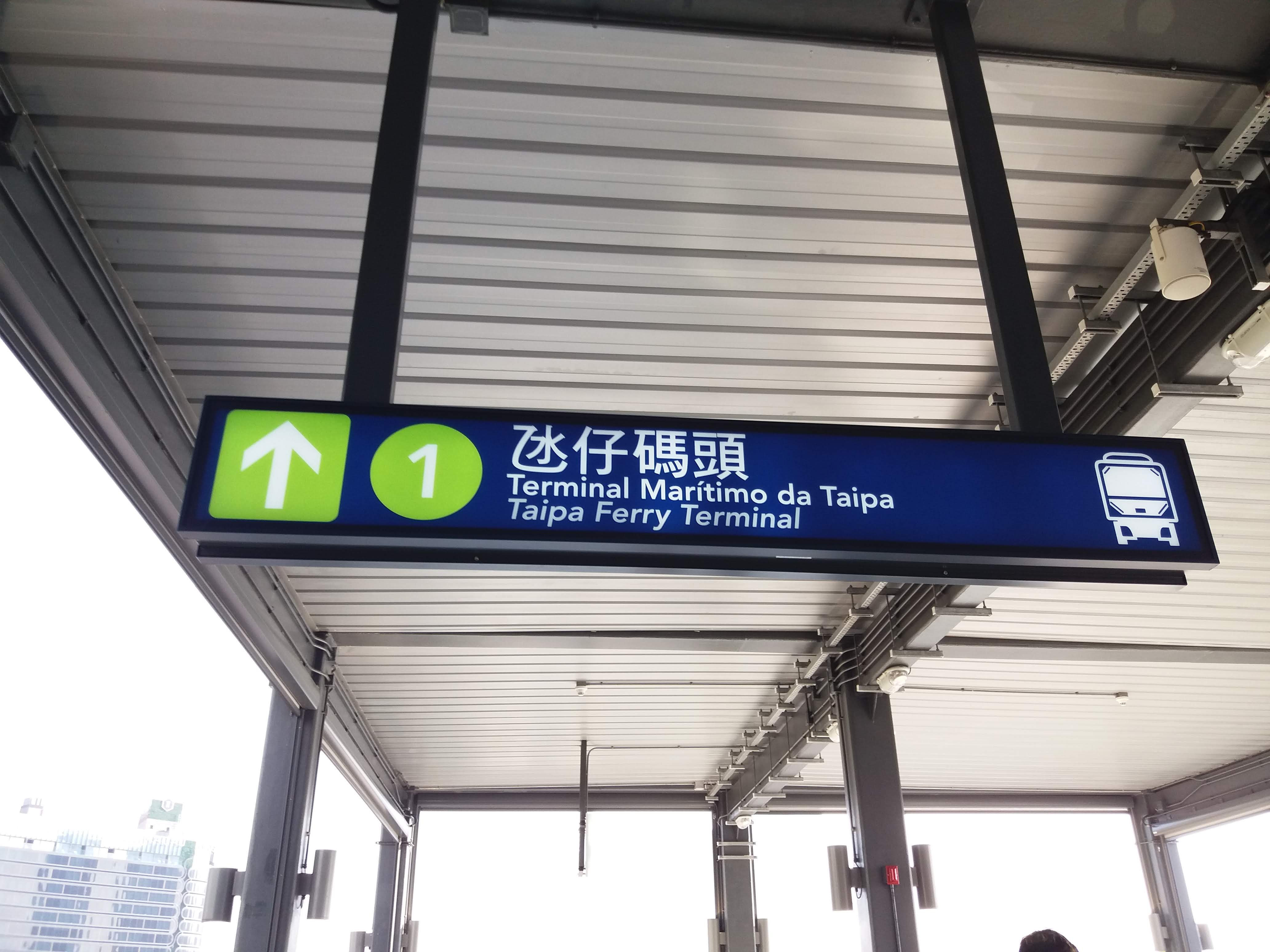 Photos taken on 24 December, 2019, during trip to Macau